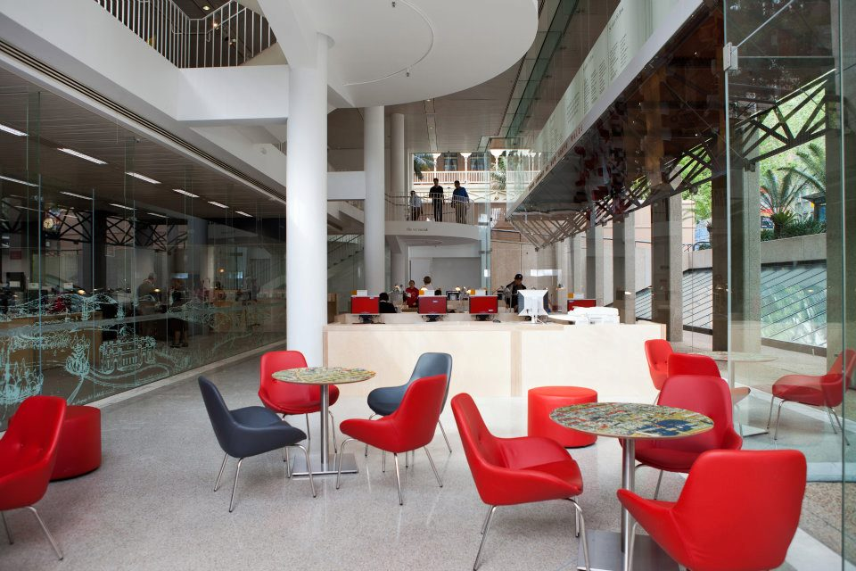 Photograph of the verandah space in the State Reference Library reading rooms - image by Bruce York